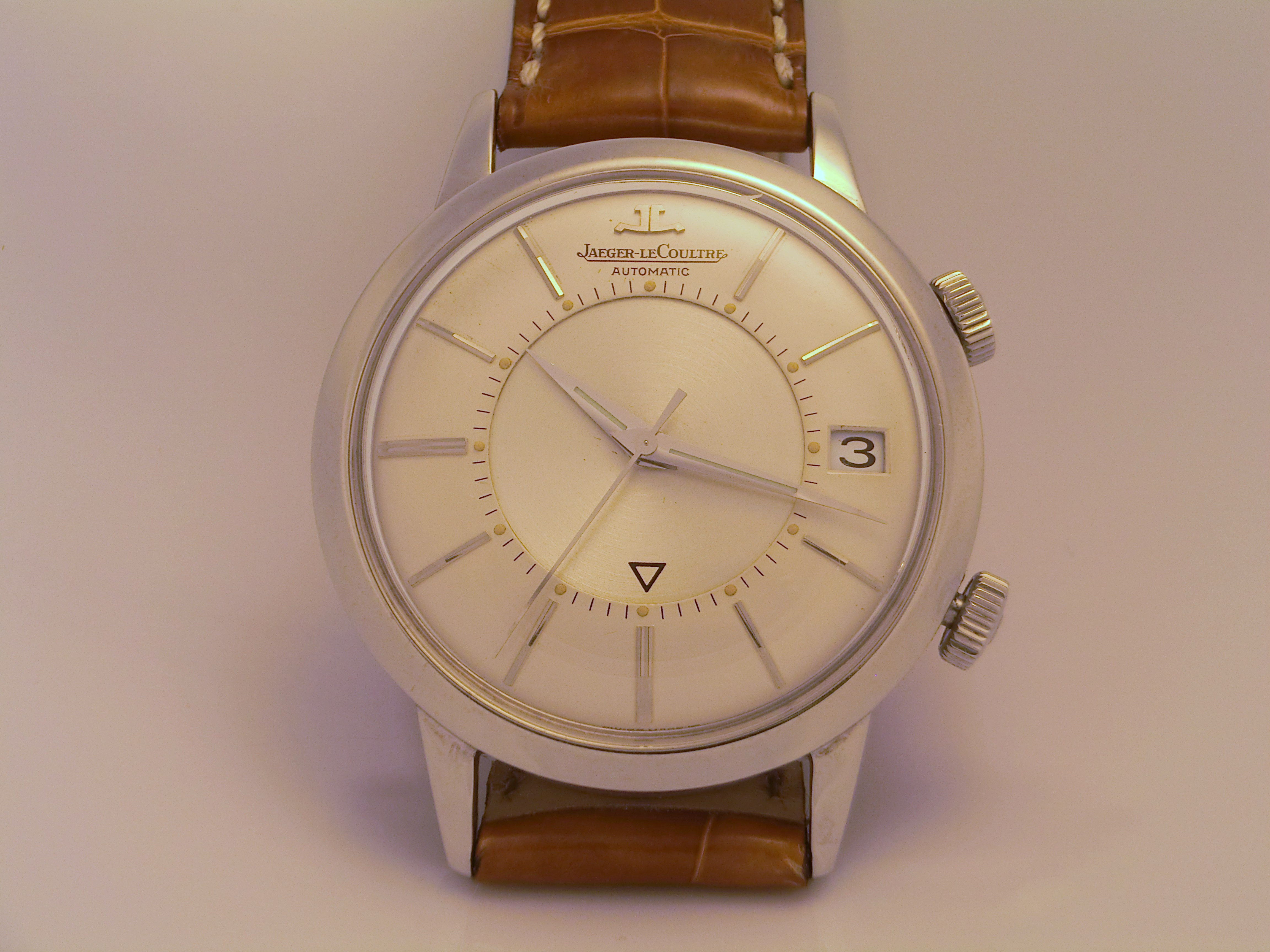 automatic alarm wrist watch from the 1960's by swiss manufacturer JLC